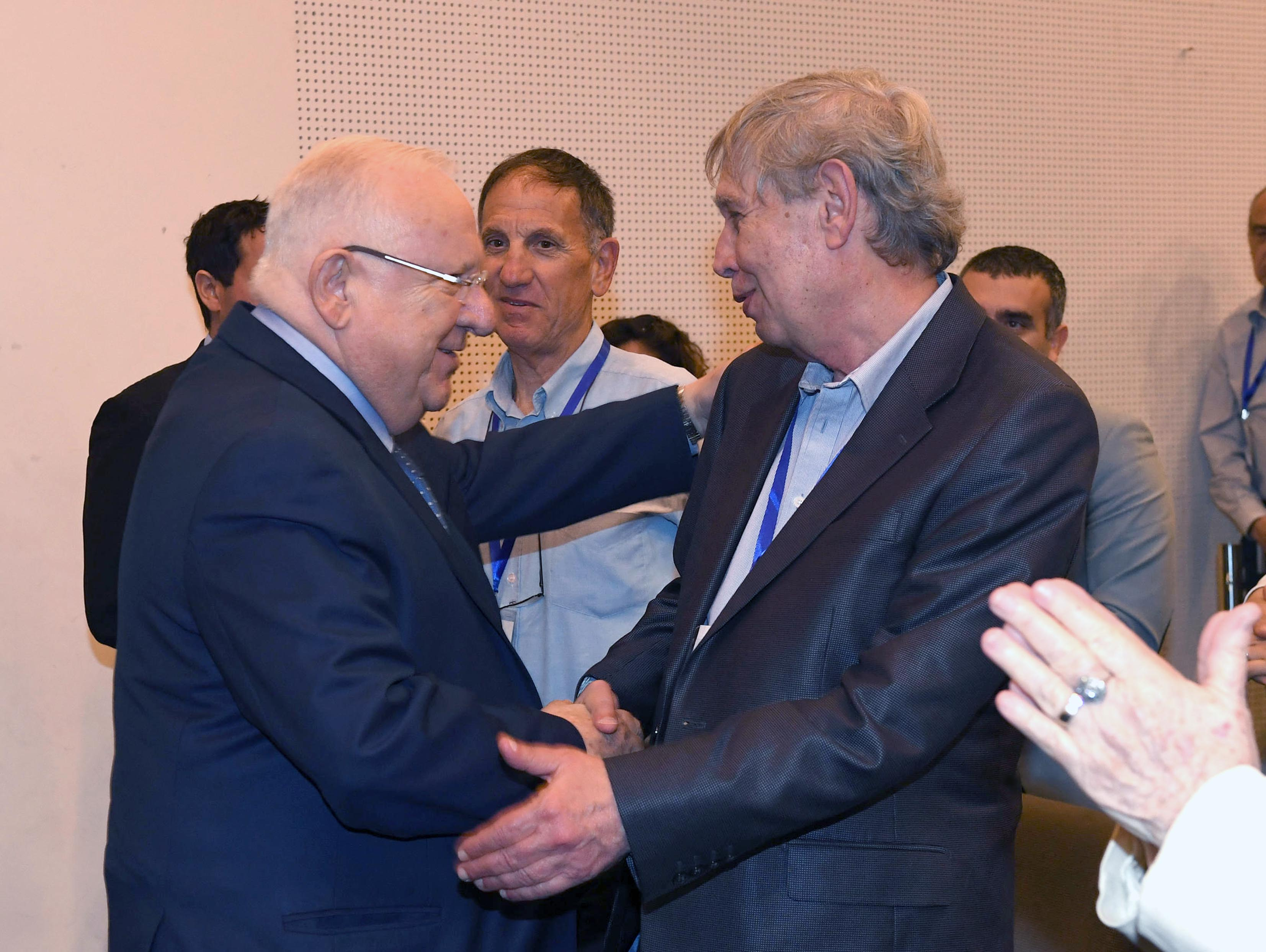 The President of Israel, Reuven Rivlin, at the Meir Dagan Conference on Security and Strategy for 2018. Wednesday, March 21, 2018. Photo Credit: Mark Neyman / GPO.